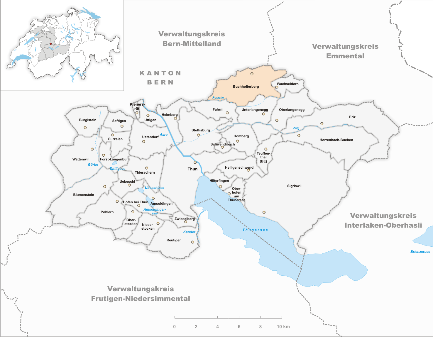 Municipality Buchholterberg